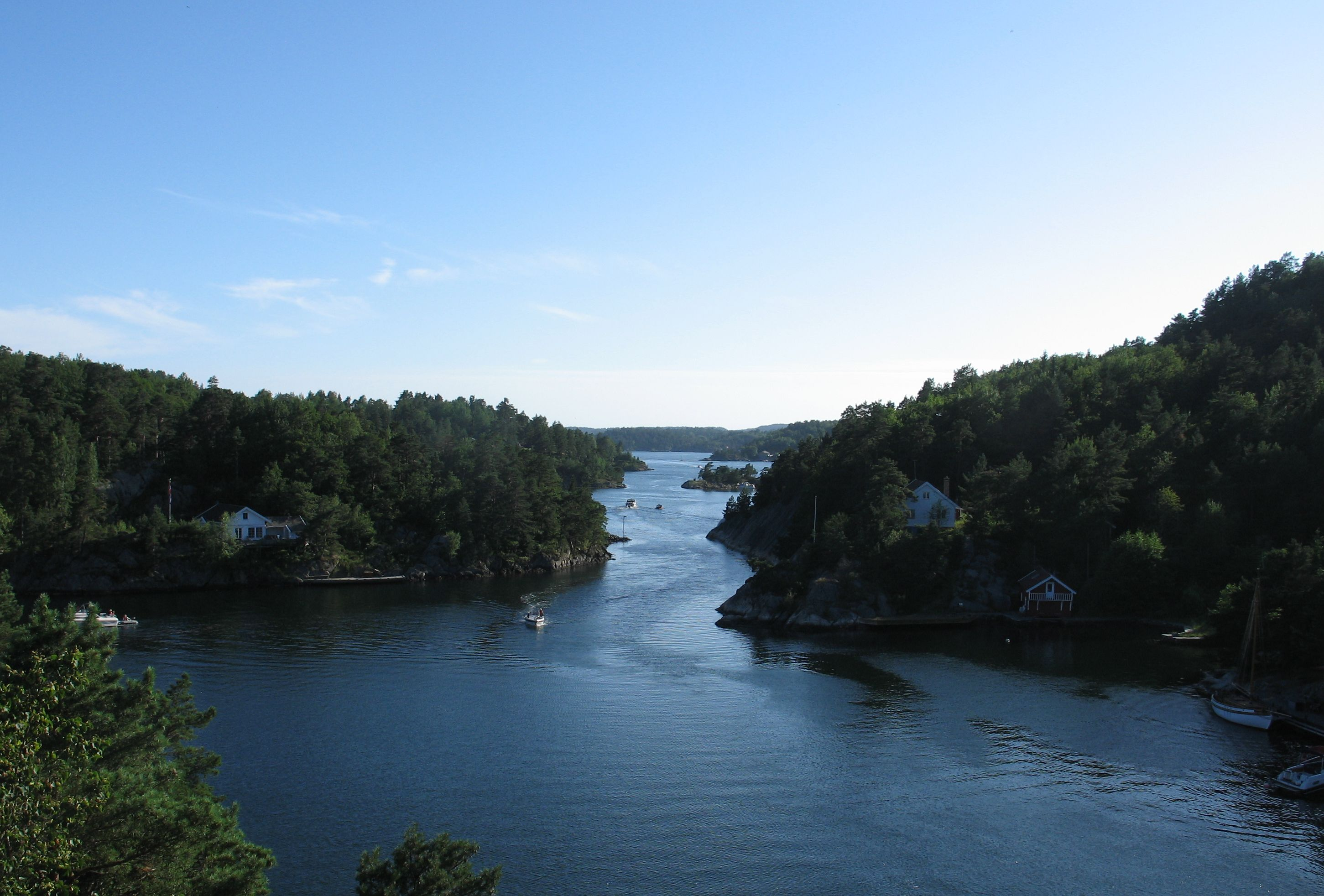 Inshore area inn Lillesand